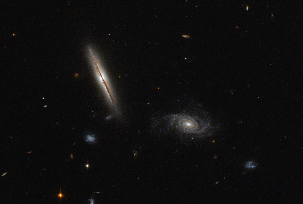 Despite its unassuming appearance, the edge-on spiral galaxy captured in the left half of this NASA/ESA Hubble Space Telescope image is actually quite remarkable. Located about one billion light-years away in the constellation of Eridanus, this striking galaxy — known as LO95 0313-192 — has a spiral shape similar to that of the Milky Way. It has a large central bulge, and arms speckled with brightly glowing gas mottled by thick lanes of dark dust. Its companion, sitting pretty in the right of the frame, is known rather unpoetically as [LOY2001] J031549.8-190623. Jets, outbursts of superheated gas moving at close to the speed of light, have long been associated with the cores of giant elliptical galaxies, and galaxies in the process of merging. However, in an unexpected discovery, astronomers found LO95 0313-192 to have intense radio jets spewing out from its centre! The galaxy appears to have two more regions that are also strongly emitting in the radio part of the spectrum, making it even rarer still. The discovery of these giant jets in 2003 — not visible in this image, but indicated in this earlier Hubble composite — has been followed by the unearthing of a further three spiral galaxies containing radio-emitting jets in recent years. This growing class of unusual spirals continues to raise significant questions about how jets are produced within galaxies, and how they are thrown out into the cosmos.